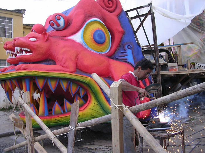 Blacks & Whites Pasto Carnival Craftman